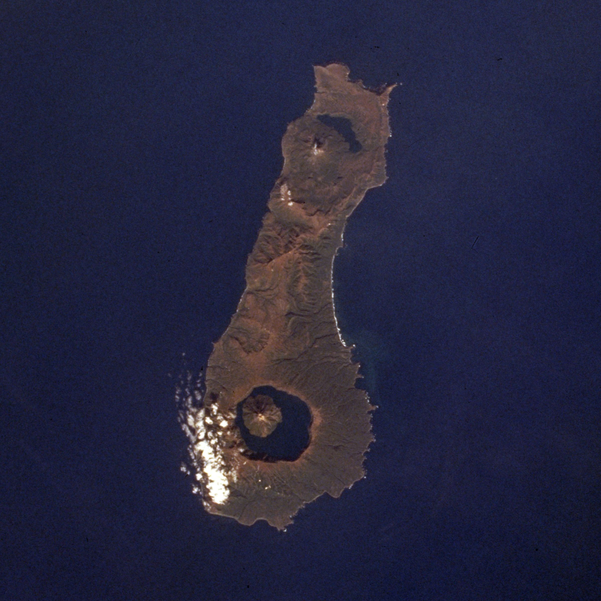 Onekotan Island (center) in the Kuril Islands, Russia. North at top.